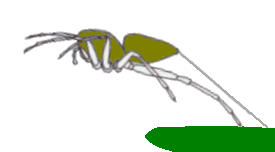 A spider at take-off when jumping. Note that it fixes a dragline (safety line) just before jumping.Ref: Hill, David Edwin (Nov 2010). "Targeted jumps by salticid spiders". Peckhamia 84 (1): 8. ISSN 1944-8120. Retrieved on 14 June 2011.